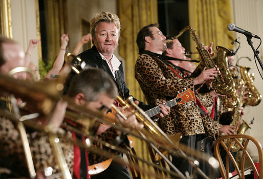 Guitarist-singer Brian Setzer plays with his orchestra Thursday evening, June 29, 2006 in the East Room of the White House, during the entertainment following the official dinner in honor of Japanese Prime Minister Junichiro Koizumi's visit to the United States.